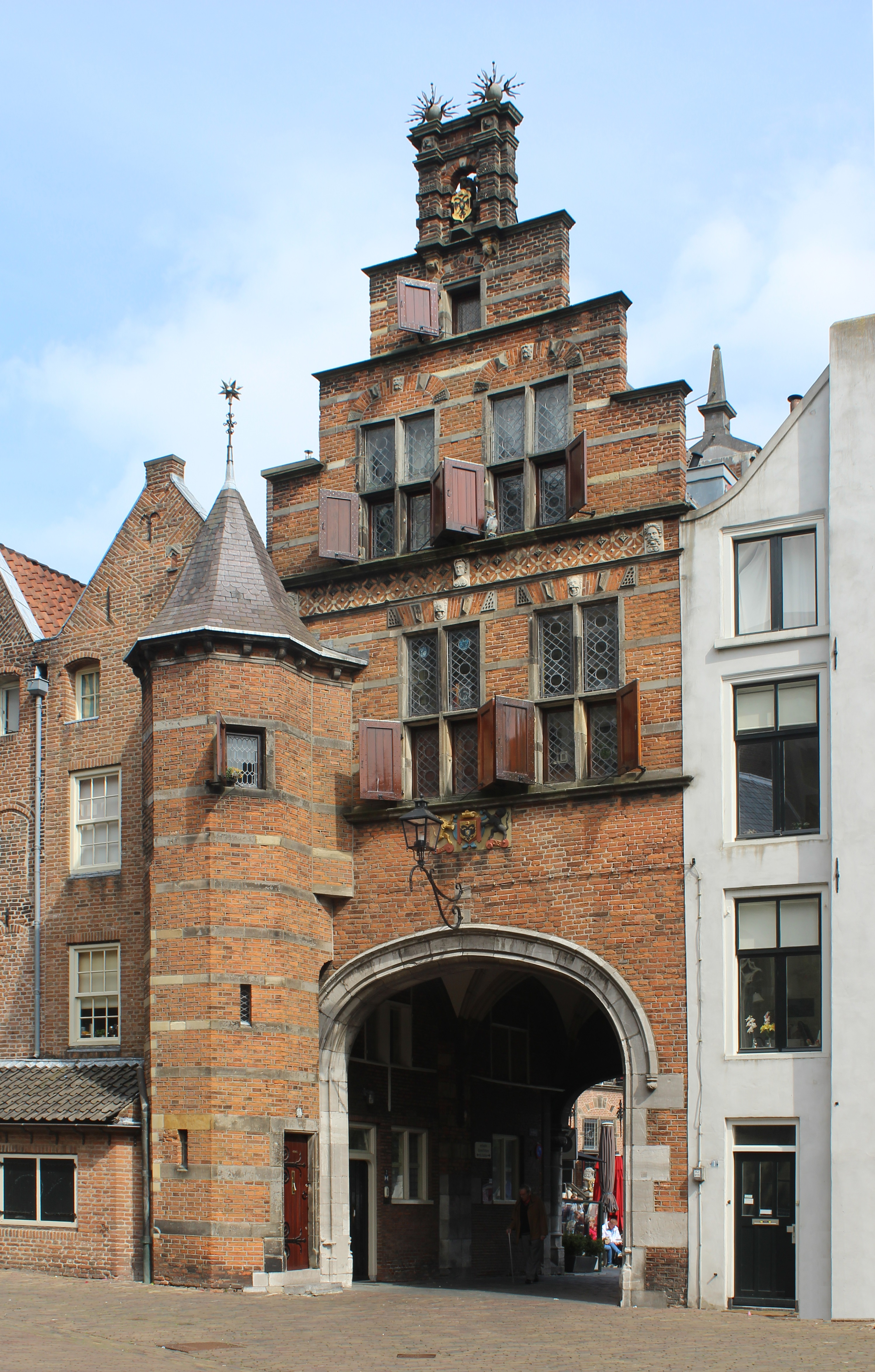 Church archway, linking the churchyard of St Stephens Church, Nijmegen to the Grote Markt viewed from the churchyard side. The archway, which has a central pillar on the Grote Markt side, was constructed in the 1540's by breaking through an existing building and was extended in 1605. It has distinctive Low Country gables at both sides.